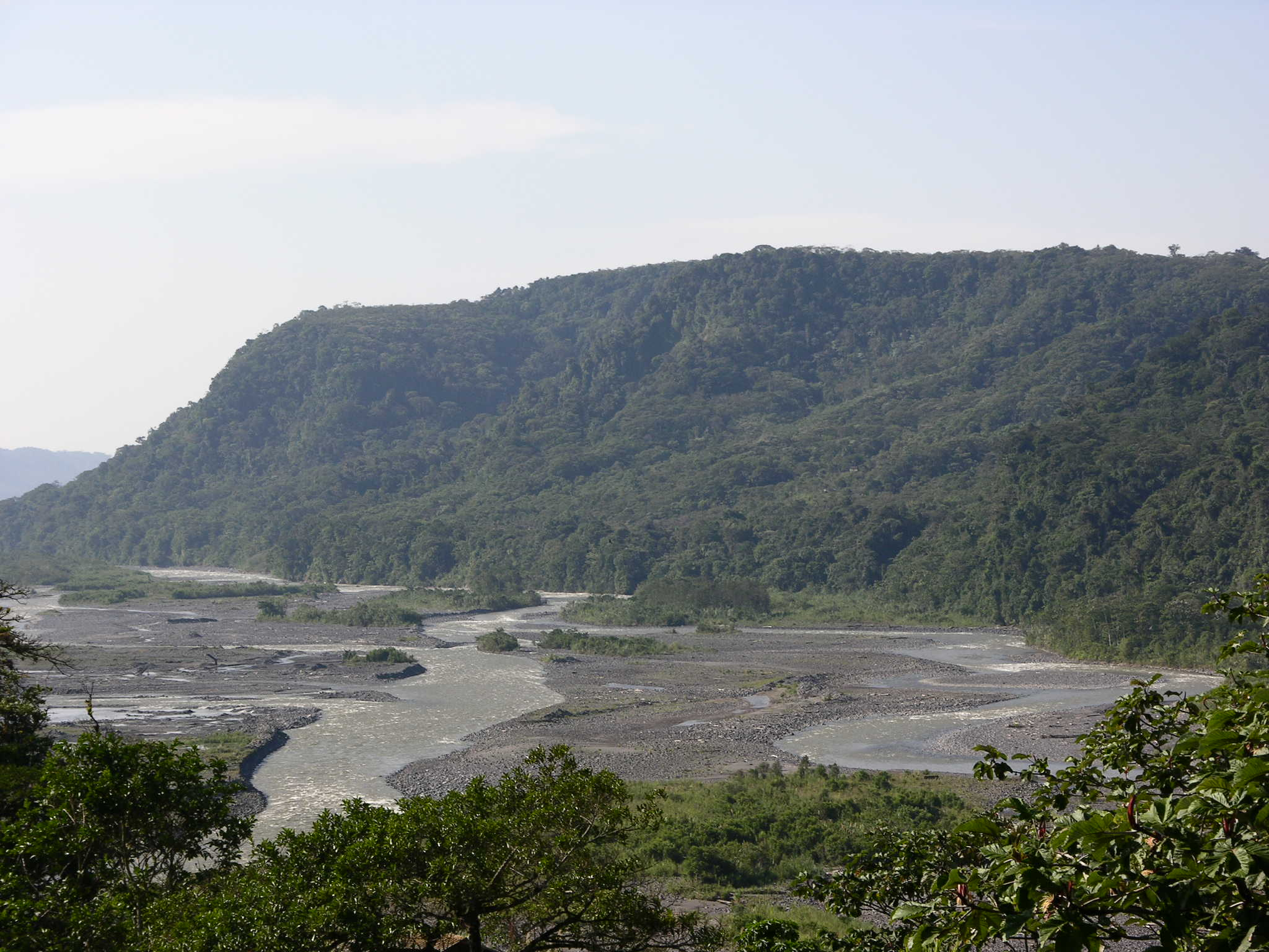 The River Pastaza, as seen from the town of Mera, Pastaza Province, Ecuador.